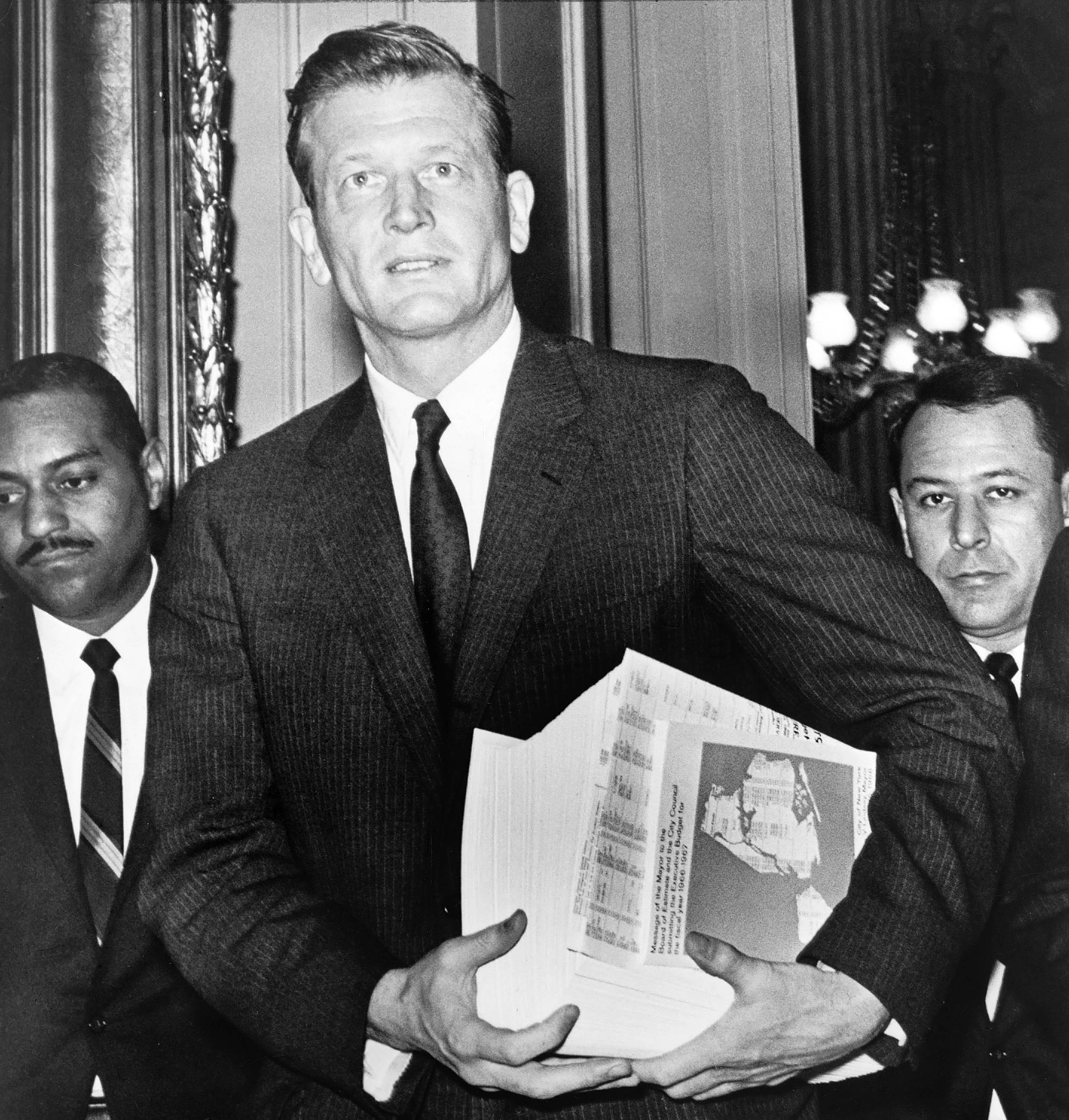 This image is originally from the Wikipedia page . The original high resolution version of the image can be found at ( This image is an exact copy of the original, except that it has been retouched to remove scratches, which can be clearly seen by comparing this file with the original.